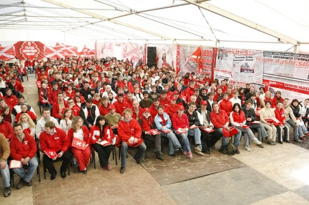 II Congress of the youth movement NASHI